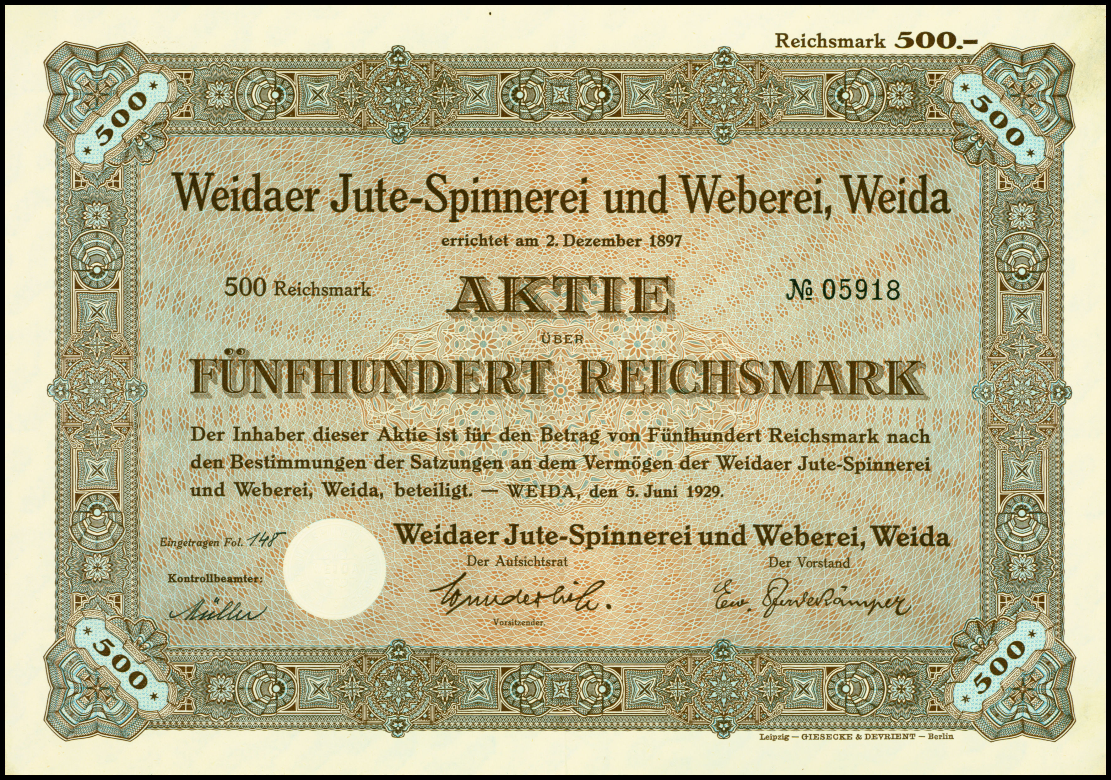 Share of the Weidaer Jute-Spinnerei und Weberei, issued 5. June 1929